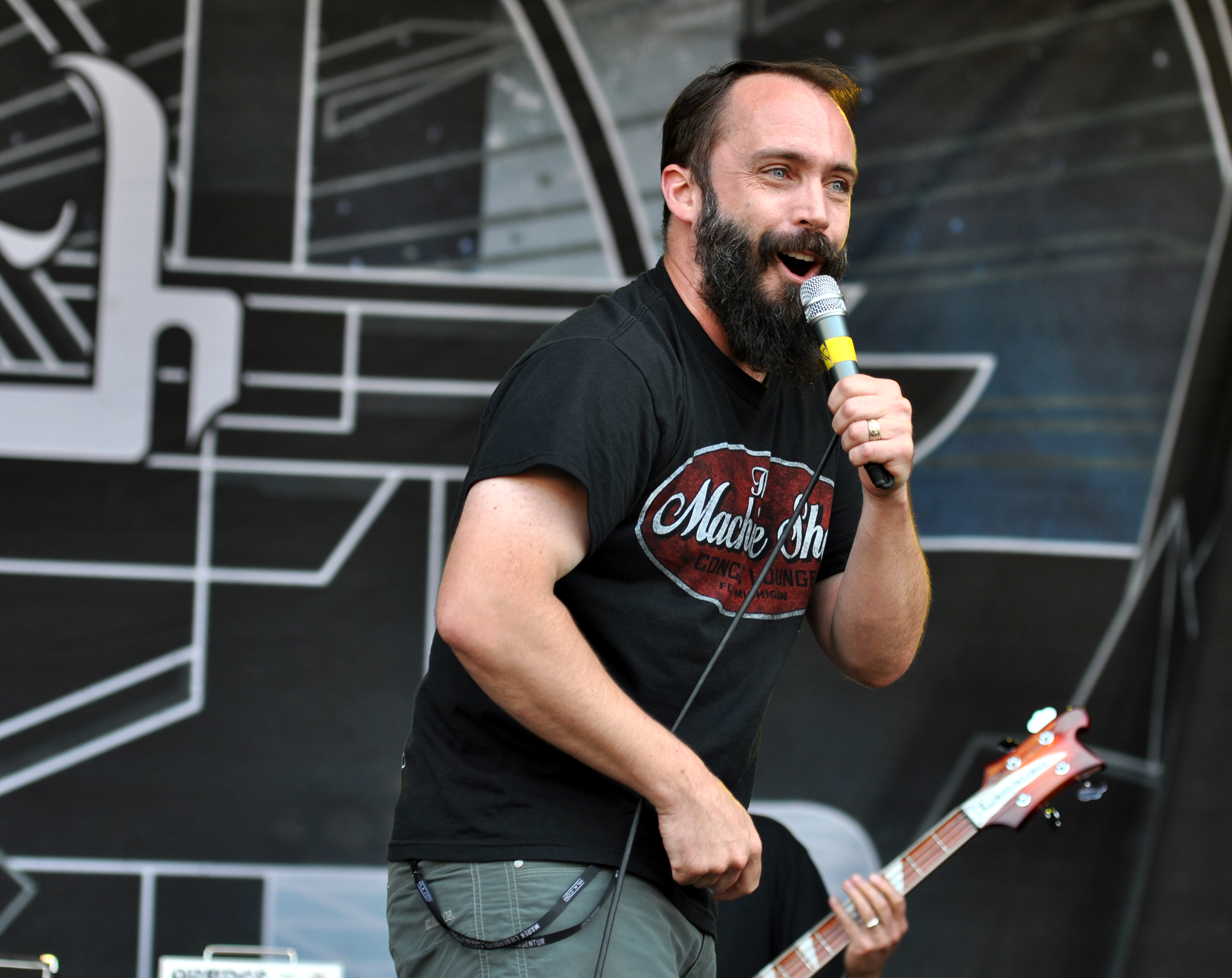 US stoner rock band Clutch at Rock am Ring 2013